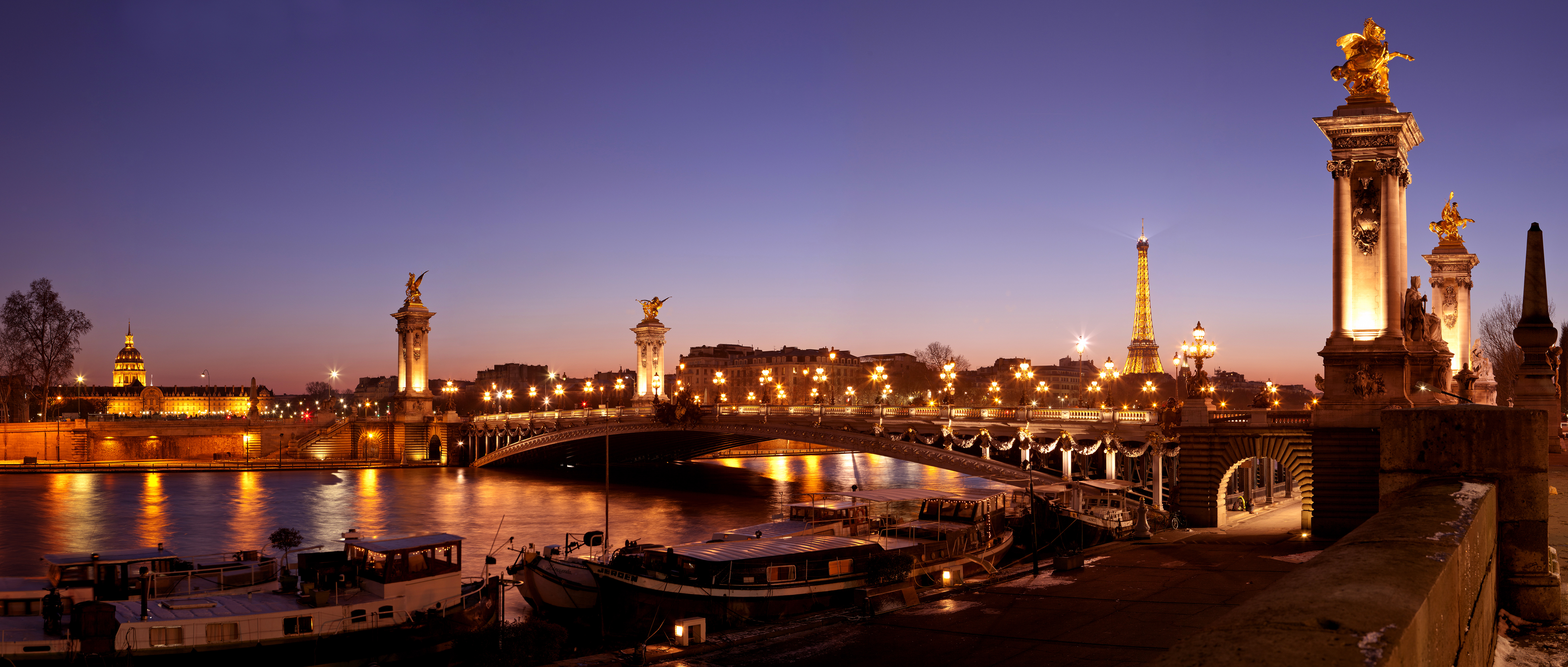 The Alexandre III bridge, in Paris. On the left, Les Invalides is visible.